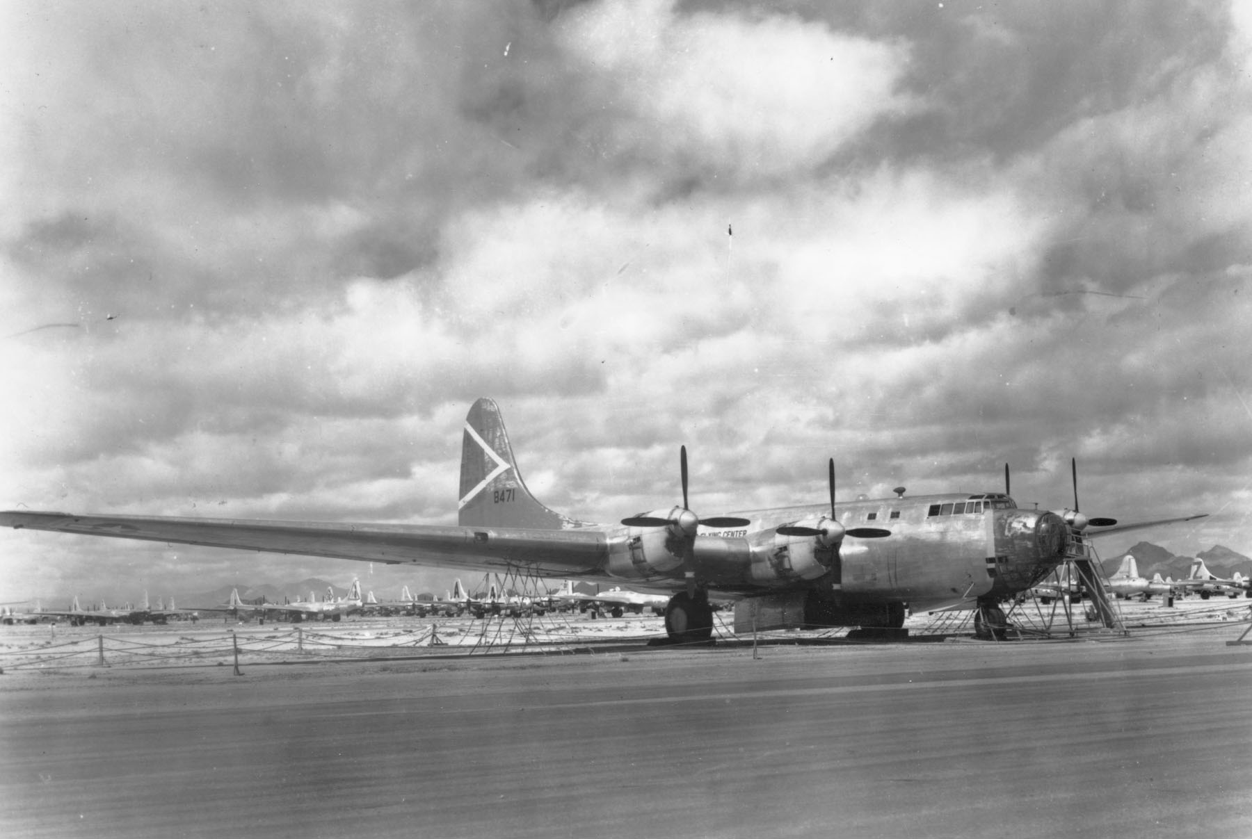 Douglas XB-19A at Davis-Monthan Air Force Base, Arizona